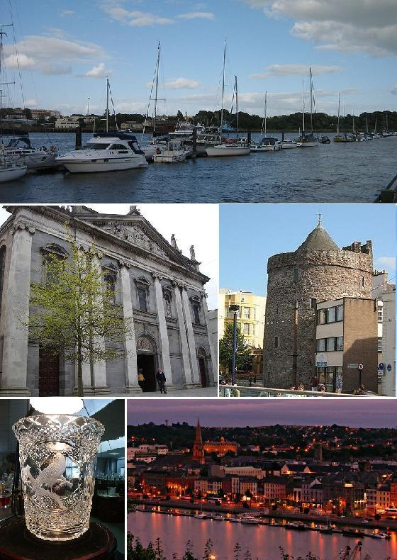 View of Waterford Marina, Cathedral, Reginald's Tower, piece of Waterford Crystal, Waterford Quay by night.